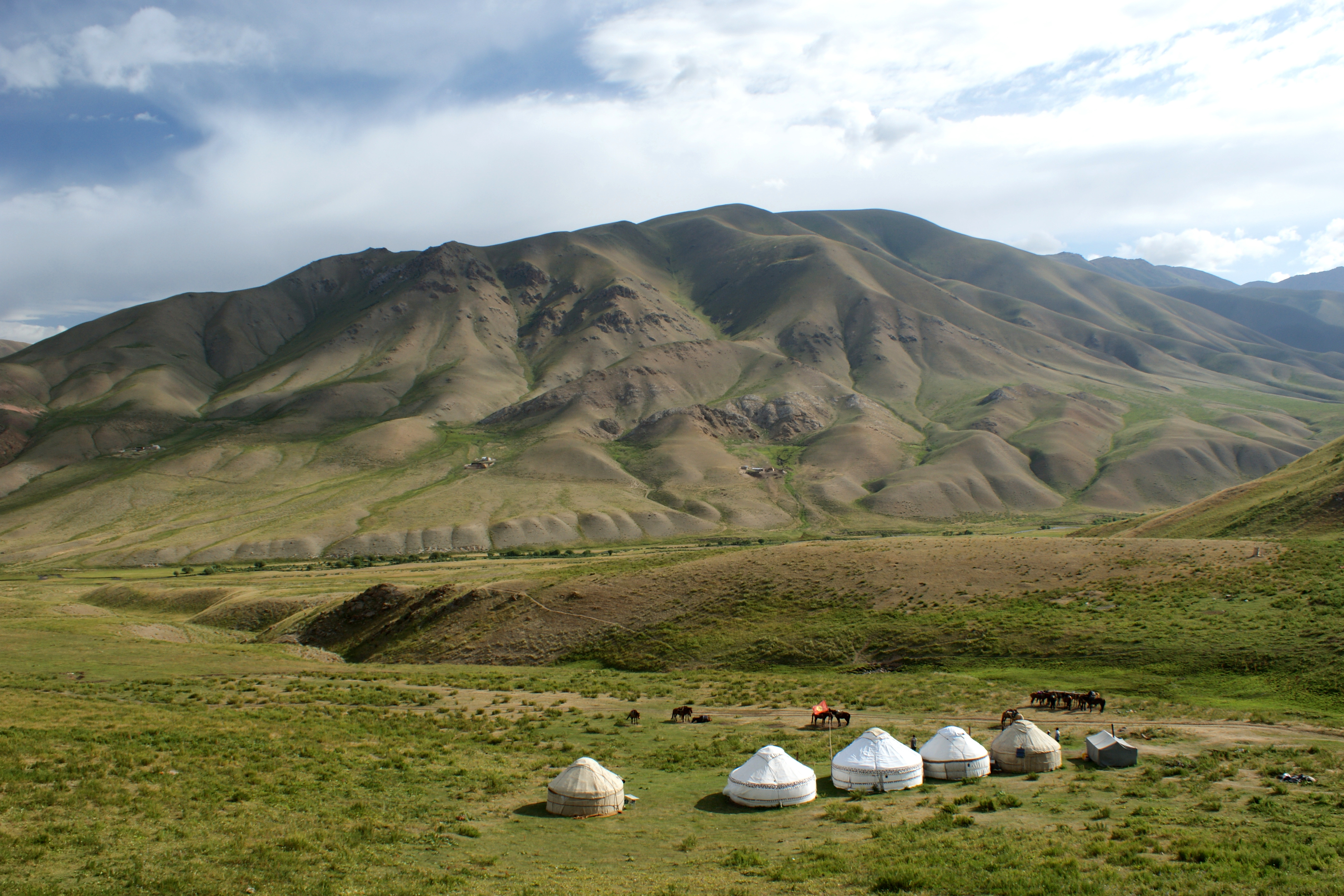 Yurt camp approx. 10 km from Son Kul lake